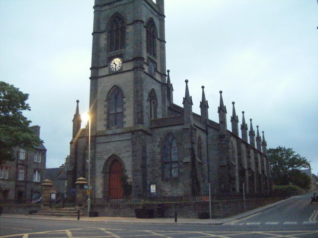 Church, Thurso Taken at 10.30 at night!